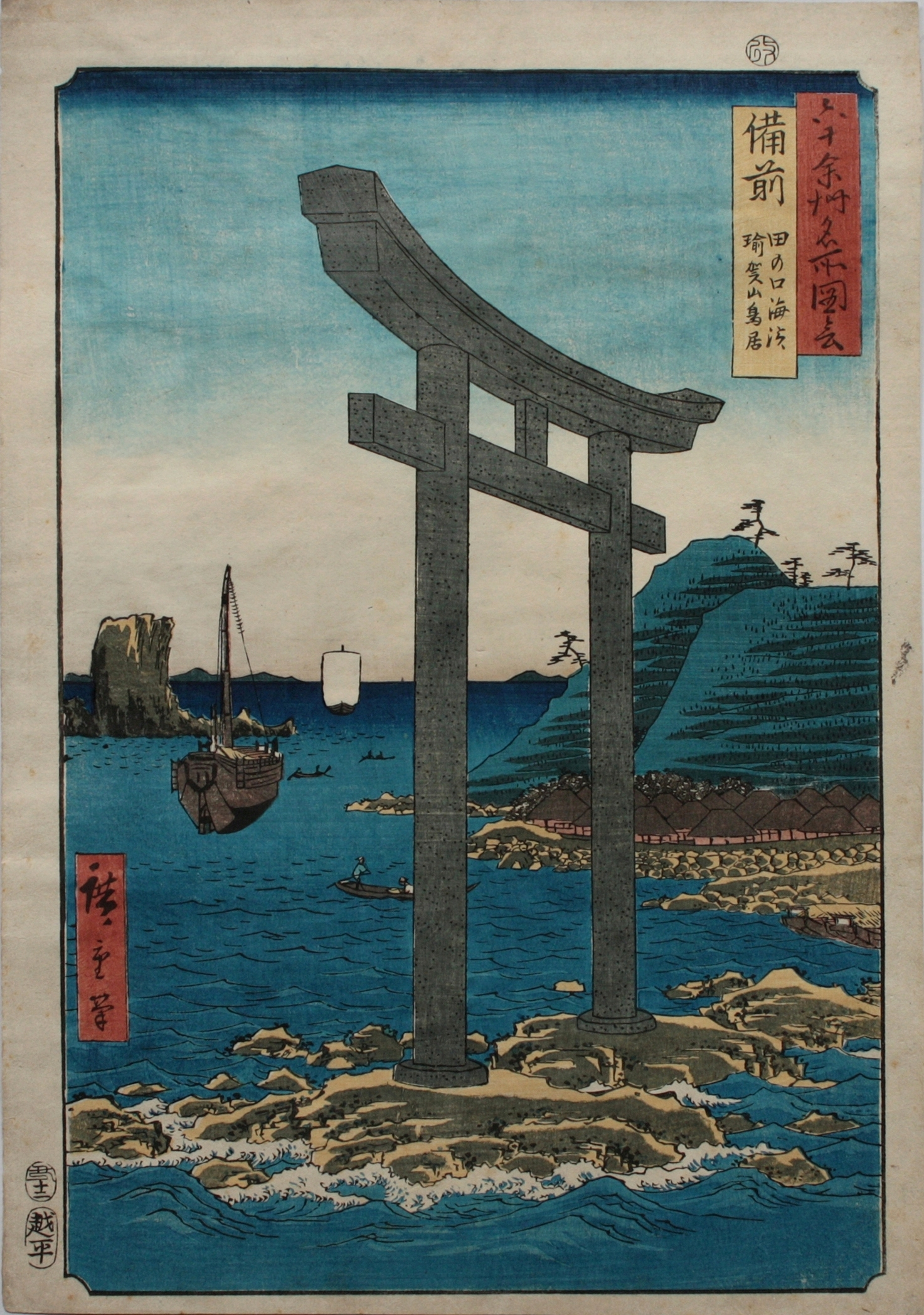 Bizen Tanokuchi of the Famous Scenes of the Sixty States.